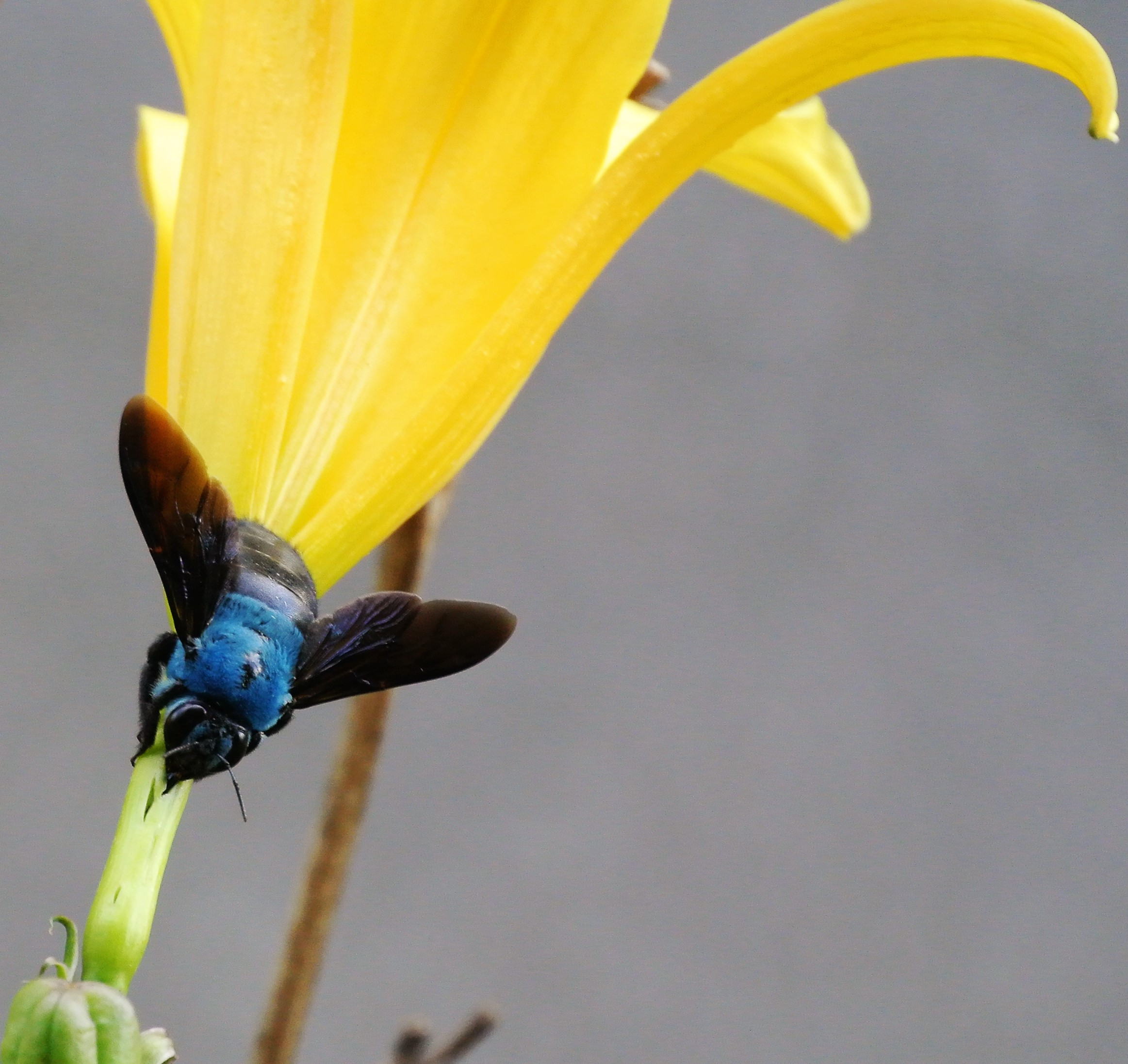 Xylocopa Caerulea, seen in Fraser's Hill, Malaysia